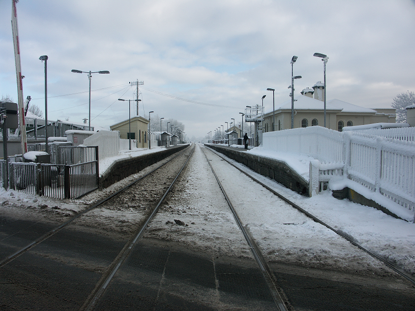 A picture of Moira Railway station during heavy snow in December 2010